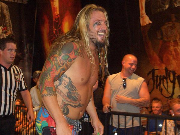 A picture of Sinn Bowdee I took at an FCW event in Florida.